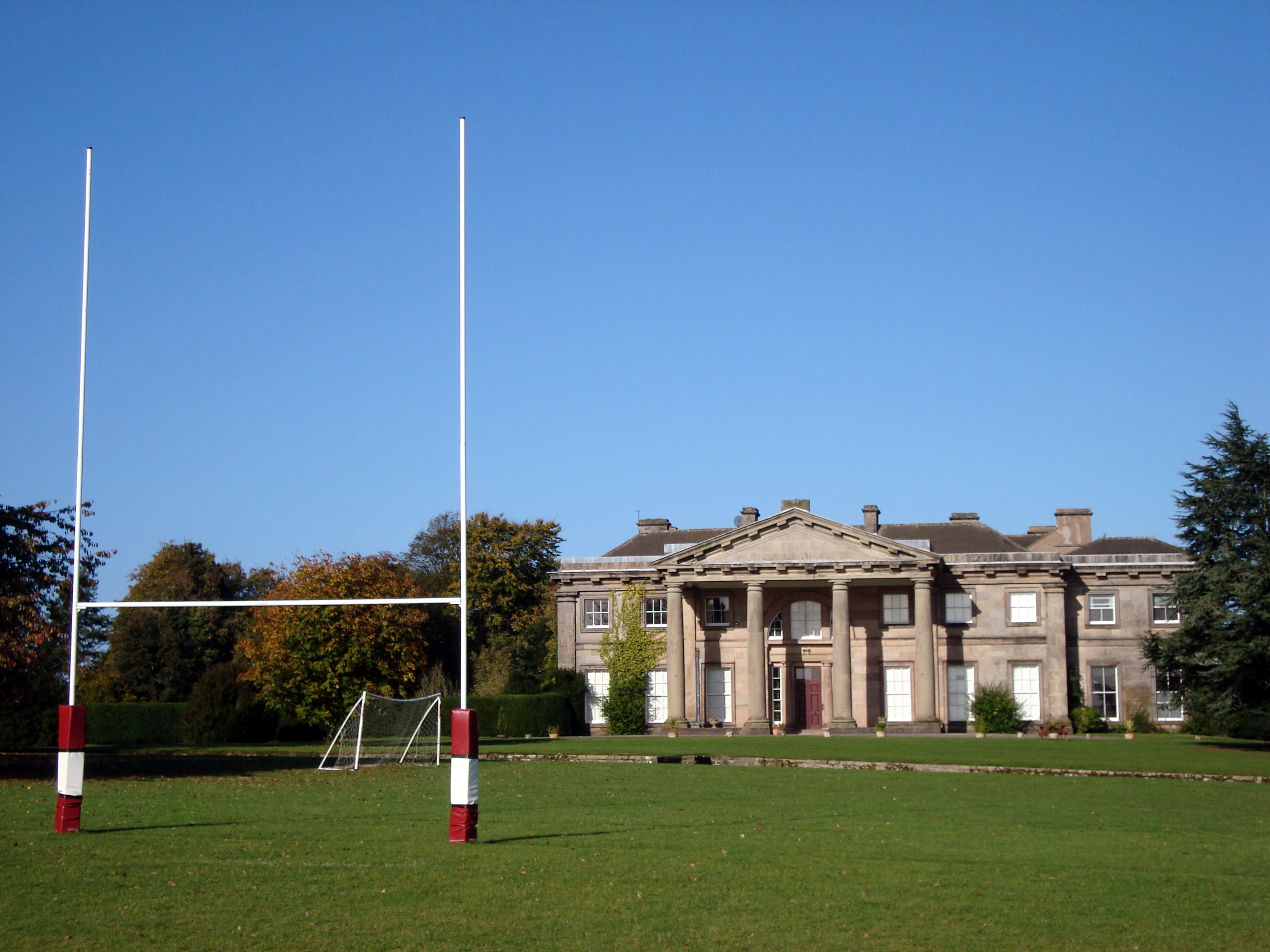 Longford Hall, Shropshire, seen from the 1st XV Rugby pitch. The hall is now the Junior Boarding House of Adams' Grammar School, Newport